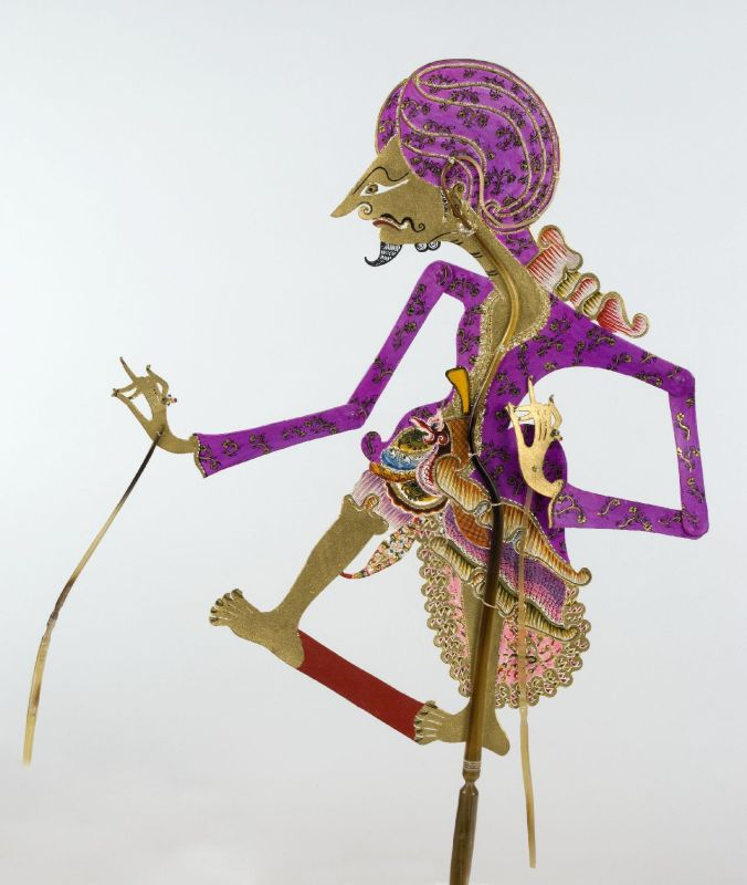 Wayang kulit figure of buffalo hide, representing 'Kyai Maja 1825'